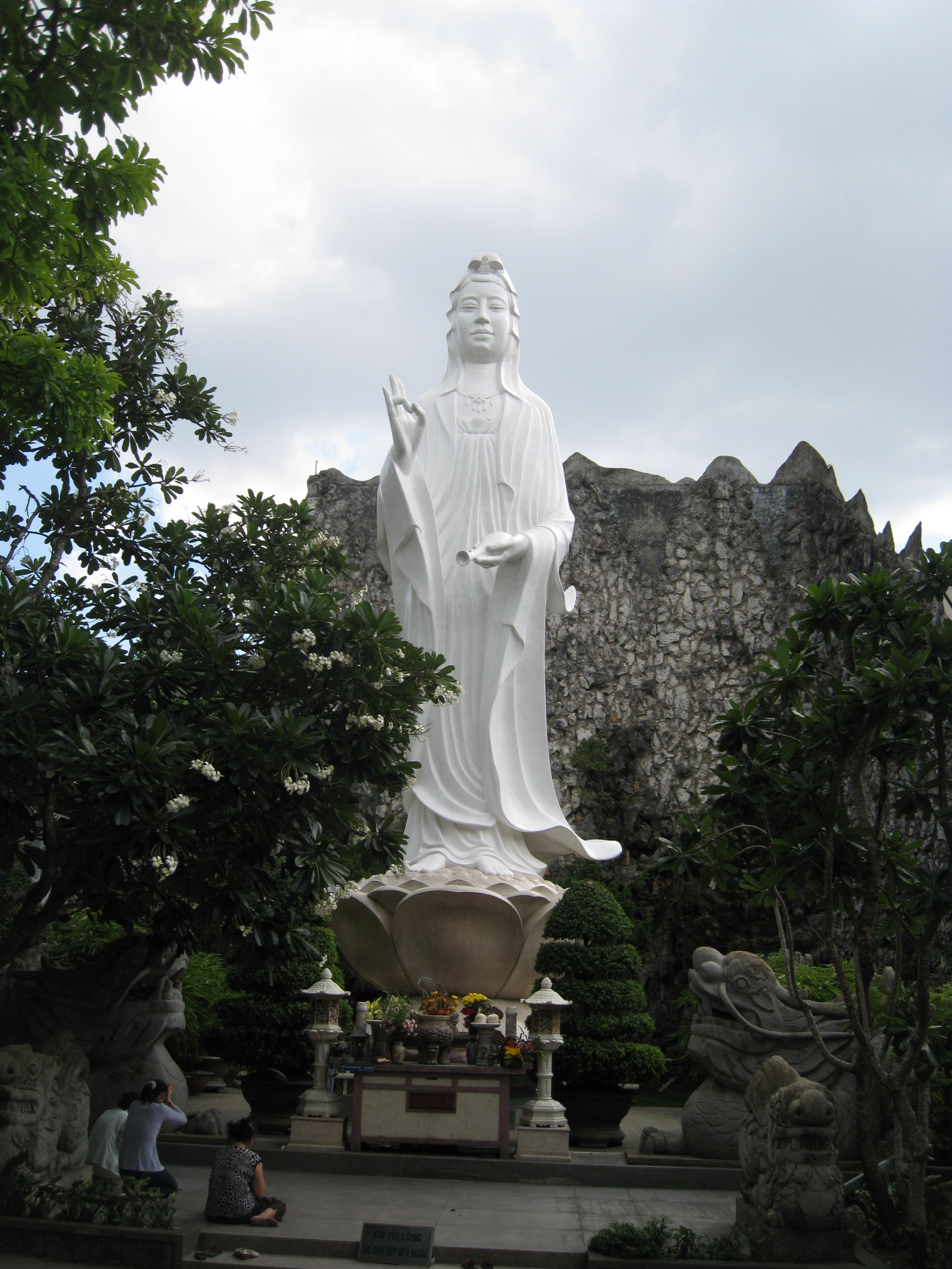 Statue of Guan Yin in Tinh Xa Trung Tam.